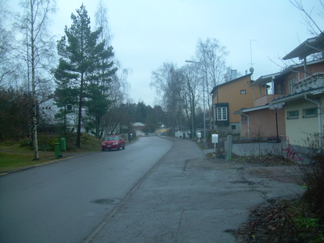 Päätie street in Kaitalahti, Laajasalo, Helsinki, Finland